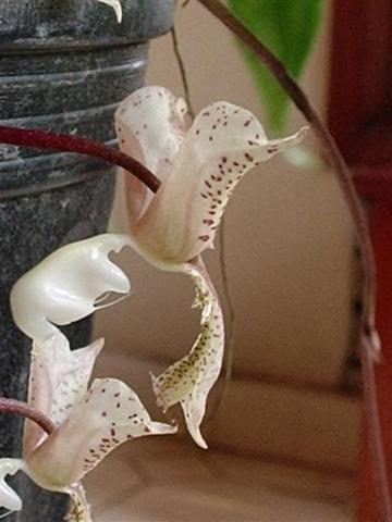 A work released per the GNU Free Documentation License by: Martín Javier Battiti de Tegucigalpa, Honduras